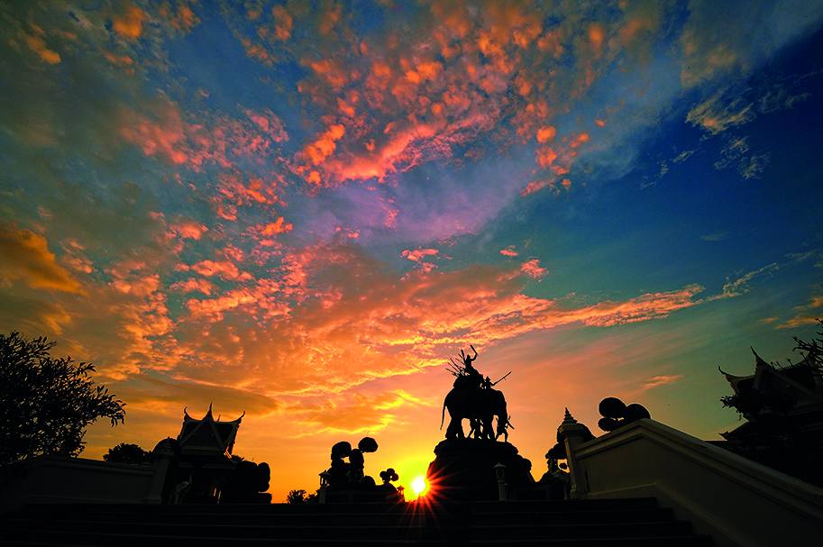 Queen Suriyothai Monument was constructed in 1991 in the area called “Tung Makham Yong” in Ban Mai sub-district, PhraNakorn Si Ayutthaya district in order to honor Queen Suriyothai and to mark the great occasion of Her Majesty Queen Sirikit’s 60th birthday anniversary in 1992. The memorial site is believed to be the actual site where a Siamese queen was killed in a heroic battle. It is known for her ultimate sacrifice in an attempt to protect her husband’s life in a battle with Burmese army. While fighting, King MahaChakkrapat’s elephant stumbled, Queen Suriyothai charged ahead to put her elephant between the King and the Viceroy of Pray. The Viceroy then engaged the fight and cleaved her with his halberd from her shoulder to her breast, resulting in the death of the queen on her elephant’s back. The bronze-cast statue of Queen Suriyothai riding on an elephant is about one and a half of the actual size. The site also displays other 49 sculptures situated nearby the monument. The monument was completed on July 3rd, 1995. And Her Majesty Queen Sirikit had come to ritual the spirit of Queen Suriyothai.